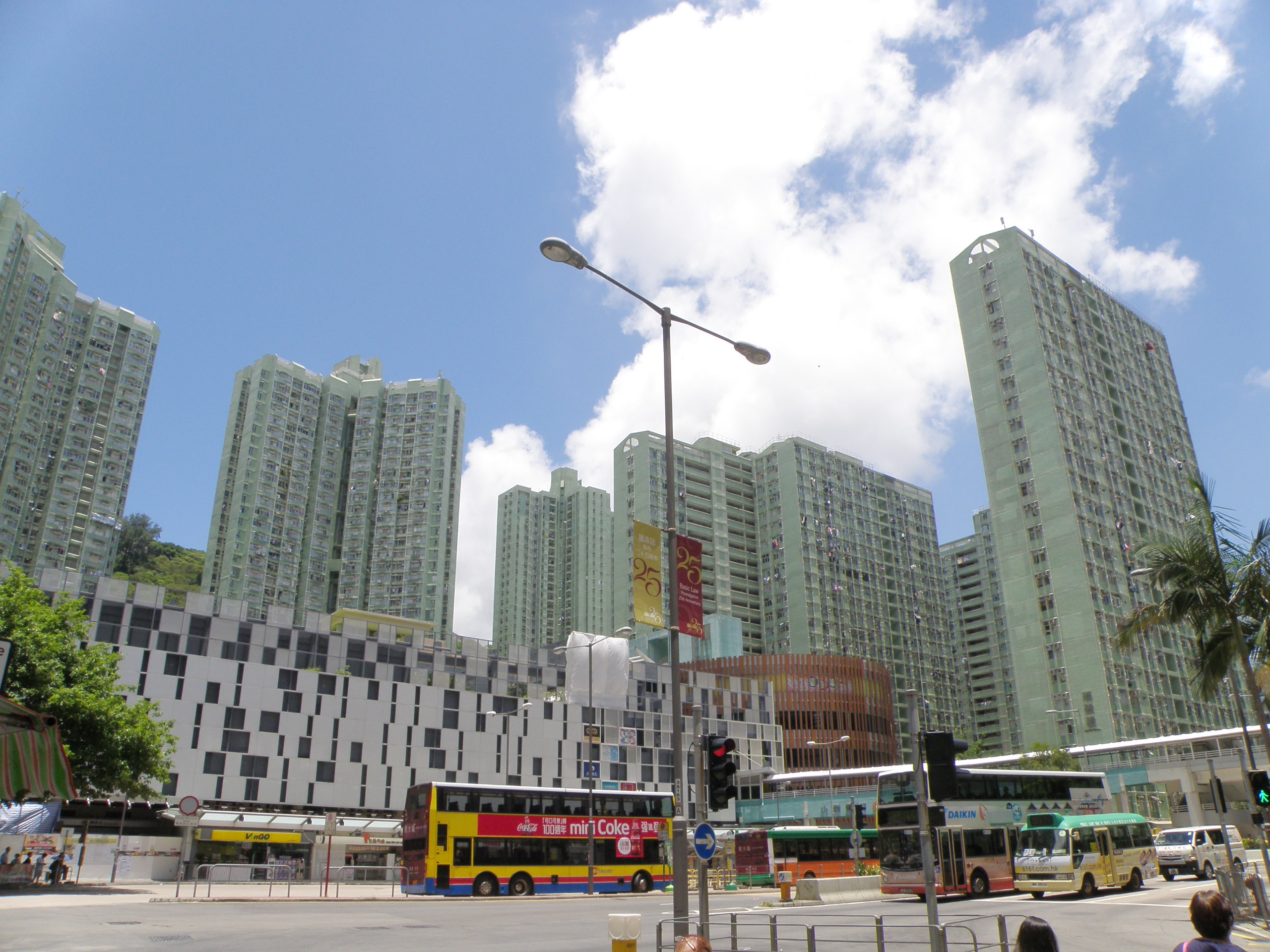 Estate in Siu Sai Wan, Hong Kong.